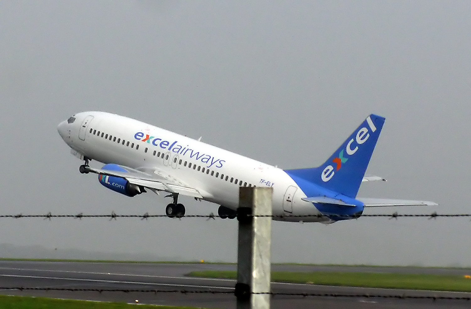 Excel Airways Boeing 737-400 (TF-ELY) taking off from Bristol Airport, Bristol, England. I'm sorry the hires version is very low quality but the aircraft only occupied a small part of my picture. Photographed by Adrian Pingstone in May 2005 and released to the public domain.